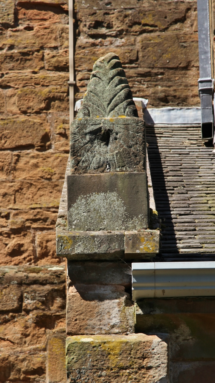 Sundial on the southwest corner of the south aisle of the parish church of St Nicholas, Kenilworth, Warwickshire